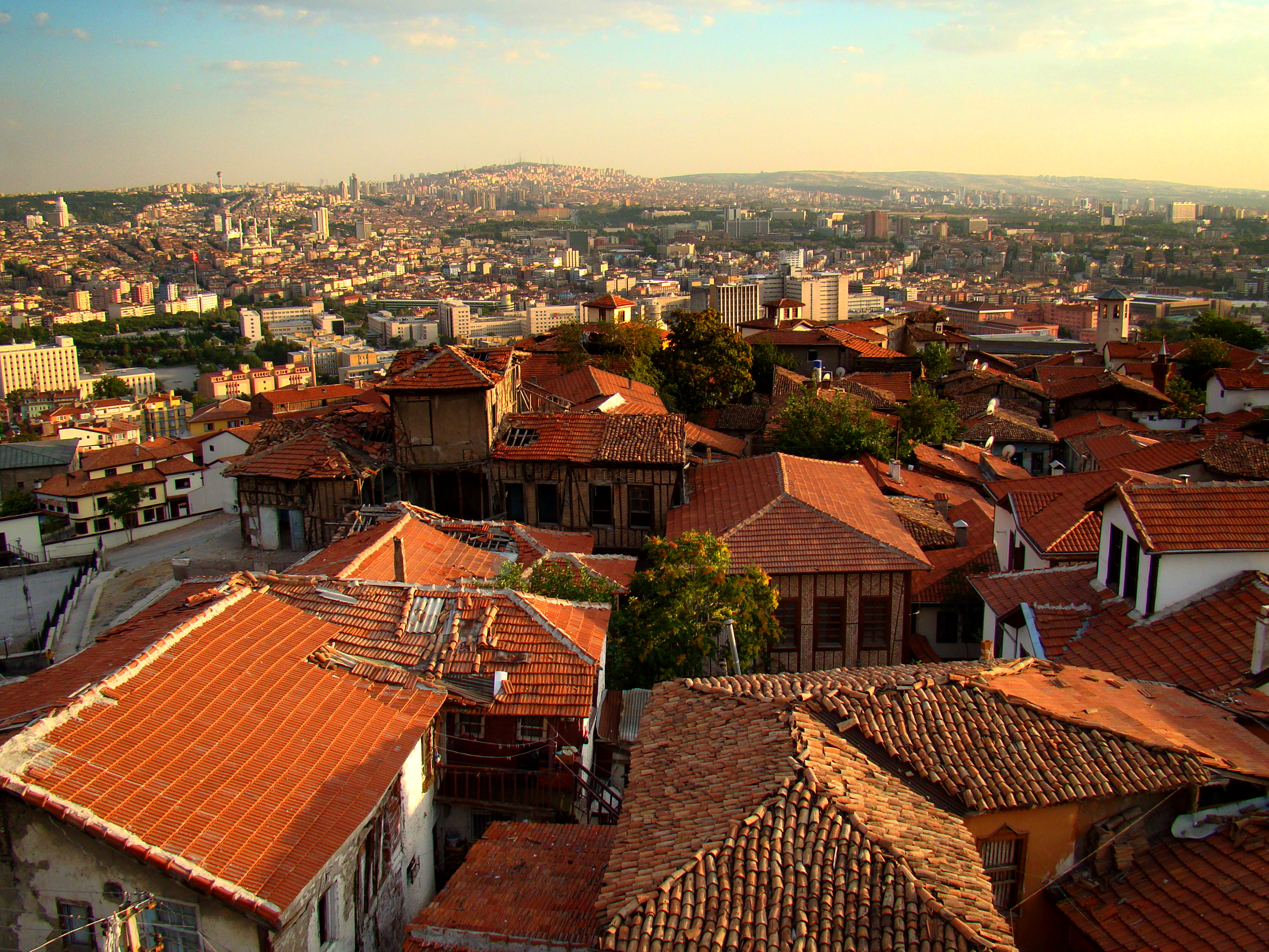 Overview of central Ankara. Photo taken from the Citadel on the hilltop near Ulus. In the front there's the old town, in the upper left part you can see the Atakule (spheric tower) and the Kocatepe Mosque.